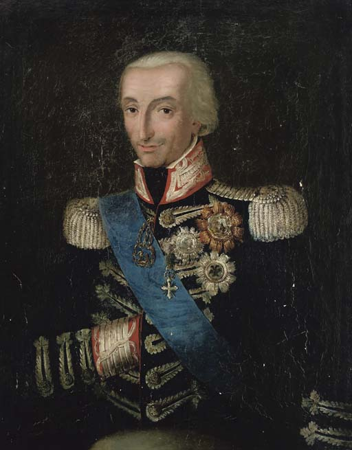 Portrait of Victor Emmanuel I of Sardinia (1759-1824) in uniform, wearing the Order of the Holy Annunciation and the Order of Saints Maurice and Lazarus